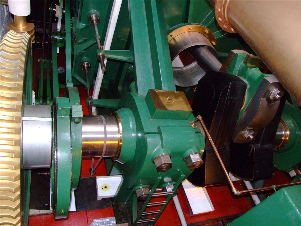 View of HMS Warrior 's massive trunk engine. To the right of the photo, the connecting rod emerges from the cylindrical "trunk" to connect to the crankshaft. To the left, on the crankshaft, is the Stephenson's valve gear.